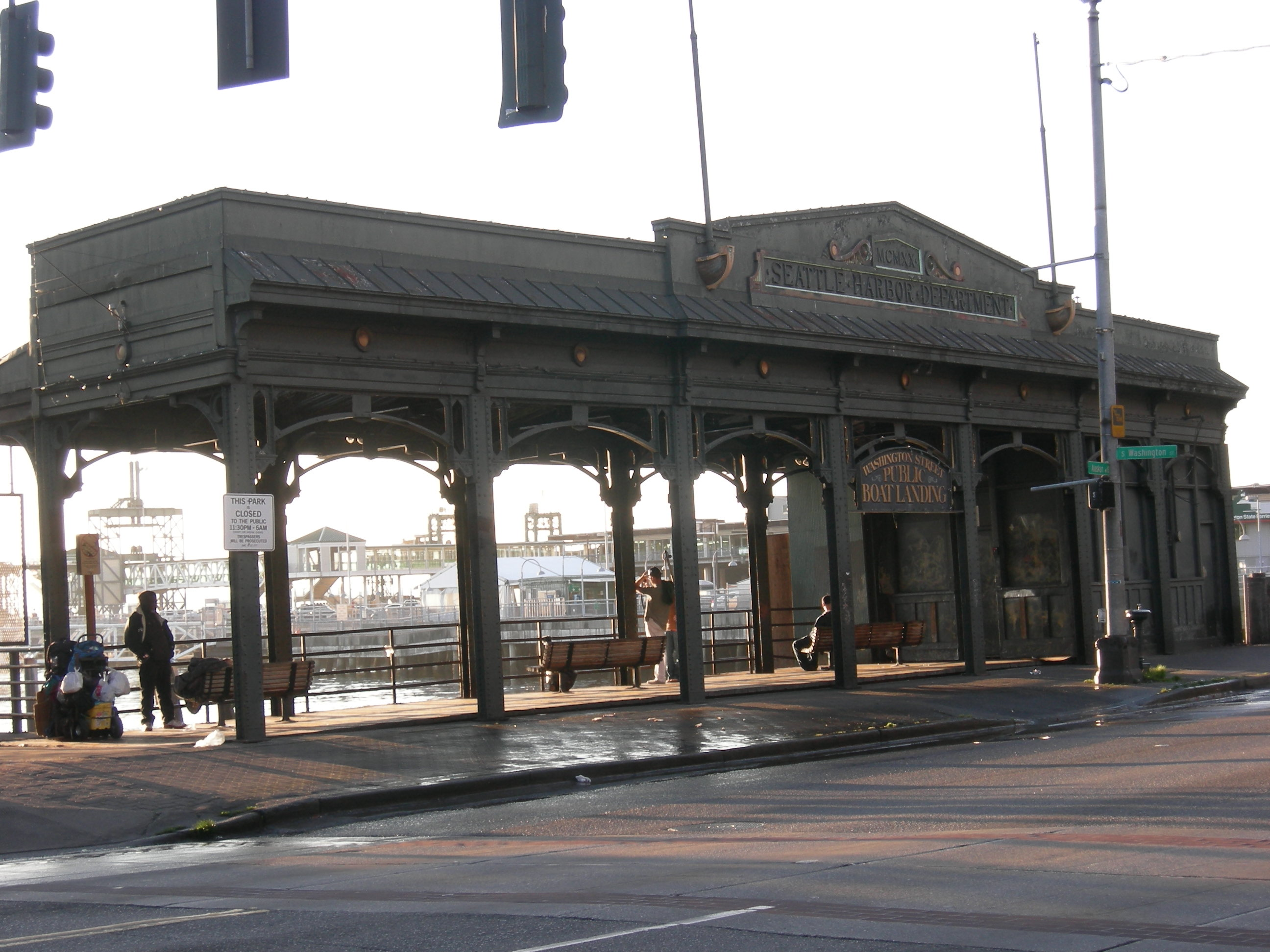 The Washington Street Boat Landing (originally Harbor Entrance Pergola, also known as Public Boat Landing) on the Elliott Bay waterfront in the Pioneer Square neighborhood of Seattle, Washington. The galvanized iron shelter is supported by 16 decorated steel columns. On the National Register of Historic Places, ID #74001961, under the name Washington Street Public Boat Landing Facility. Architect Daniel Riggs Huntington; built 1920, with some restoration work done in the 1970s. This is the district's only important landmark on the western side of Alaskan Way. Shown here just before sunset.